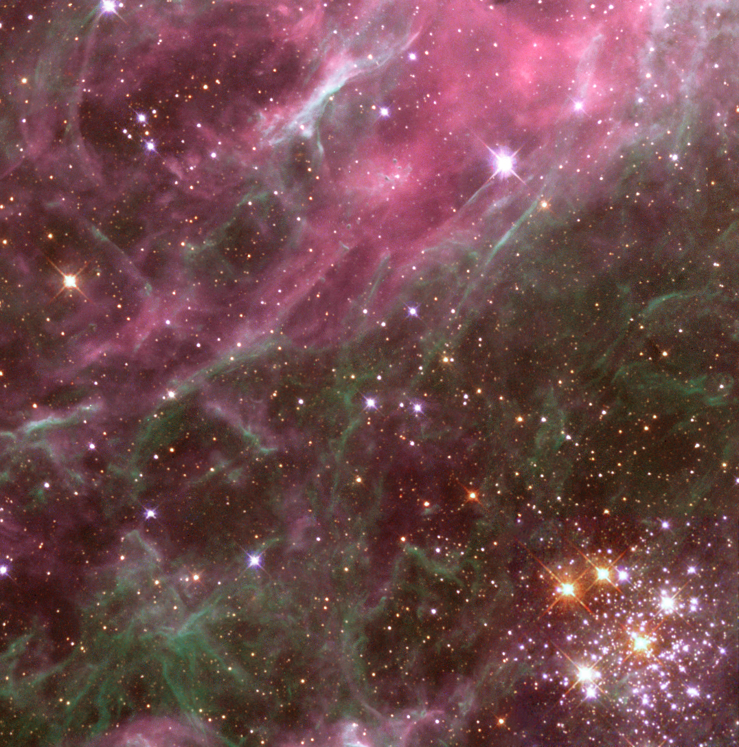 Part of the Tarantula Nebula, a giant HII region in the Large Magellanic Cloud. The star cluster at the lower right is Hodge 301.